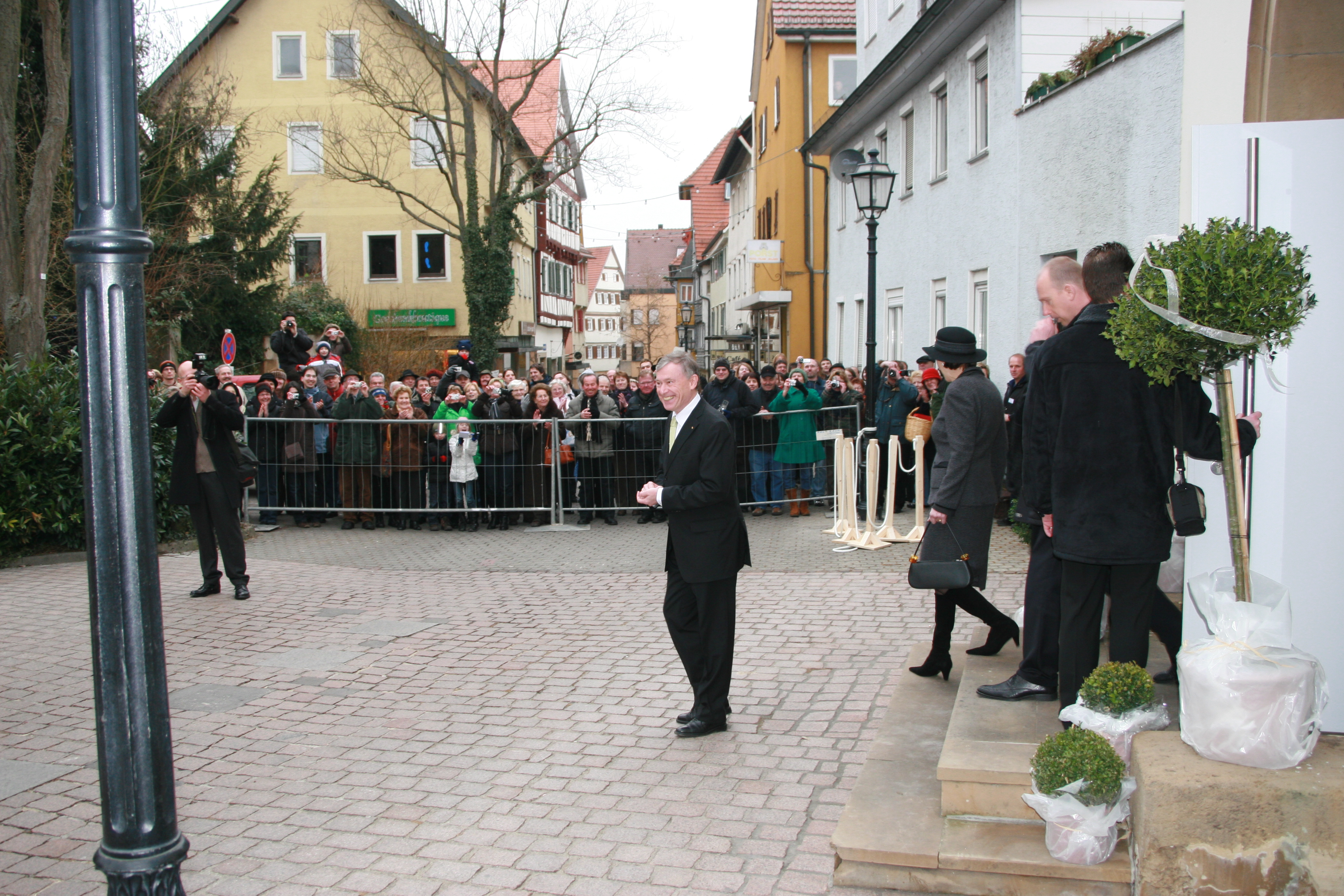 Horst Köhler in Brackenheim (31. January 2009) after he has disclosed a statue made of bronze, which shows Theodor Heuss